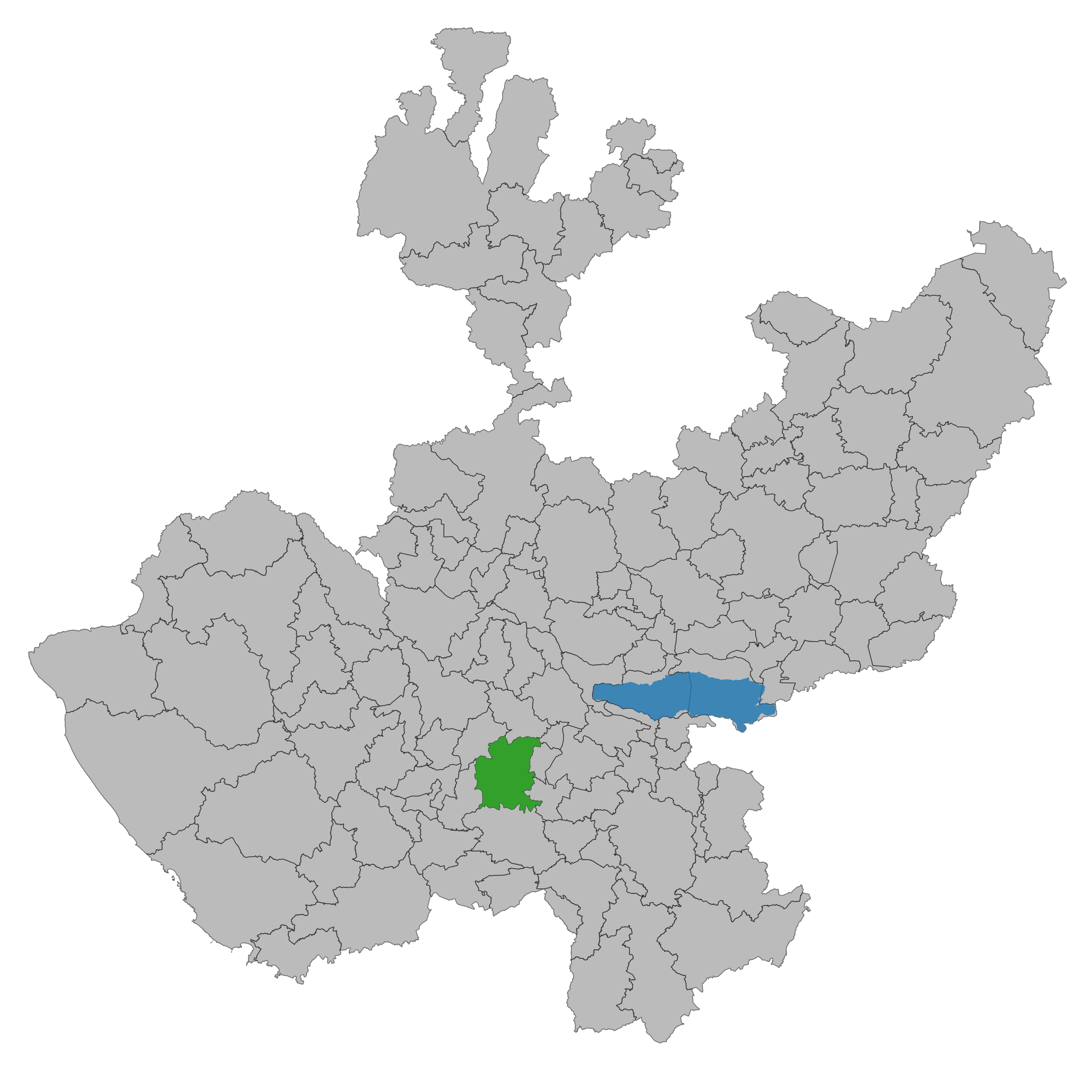 Municipality of Jalisco. Prepared with the software QGIS version 2.8.2 Wien & with information of SCINCE 2010 version 05/2013